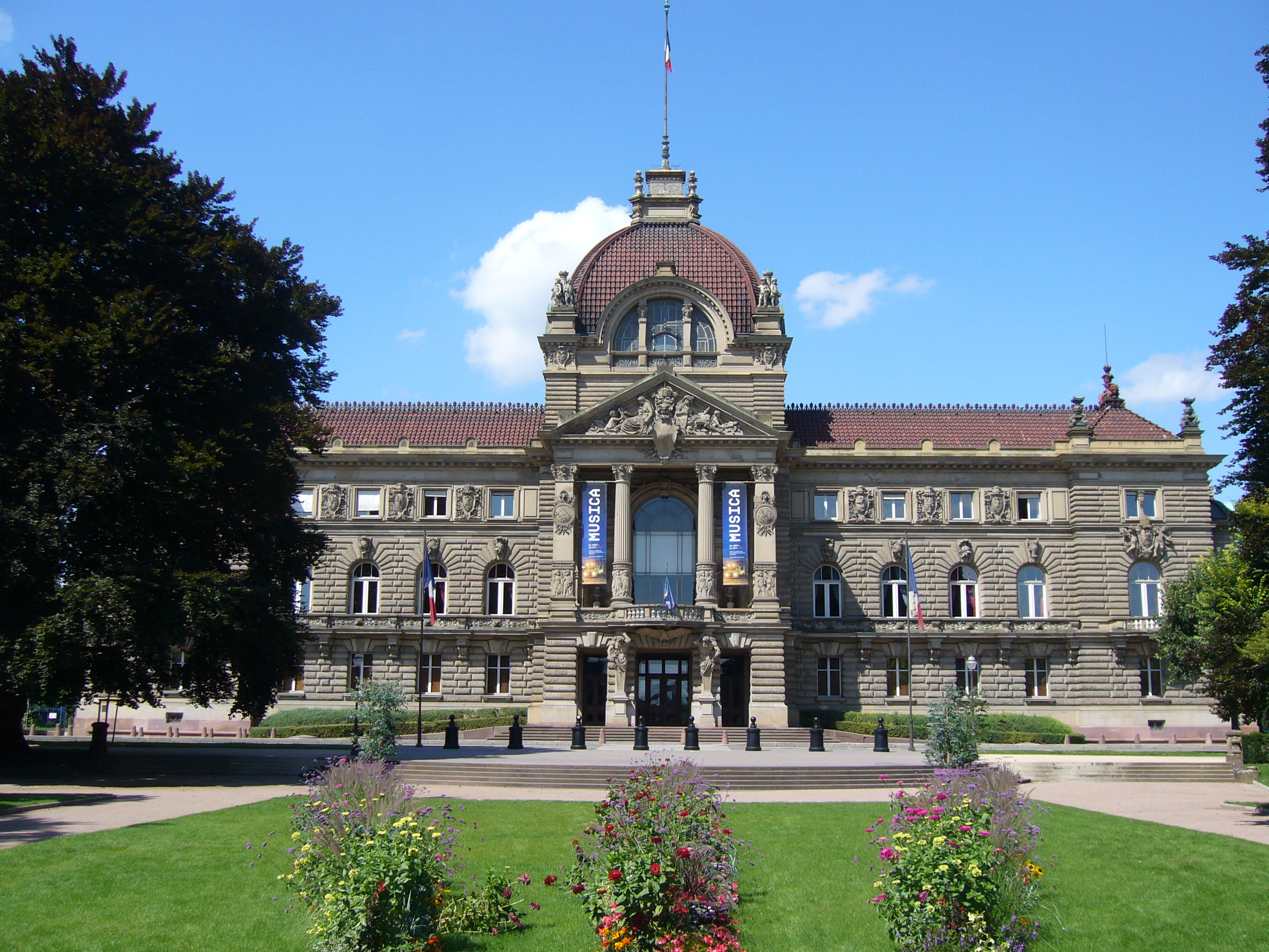 The Palais du Rhin (english: Palace of the Rhine), in Strasbourg, France.